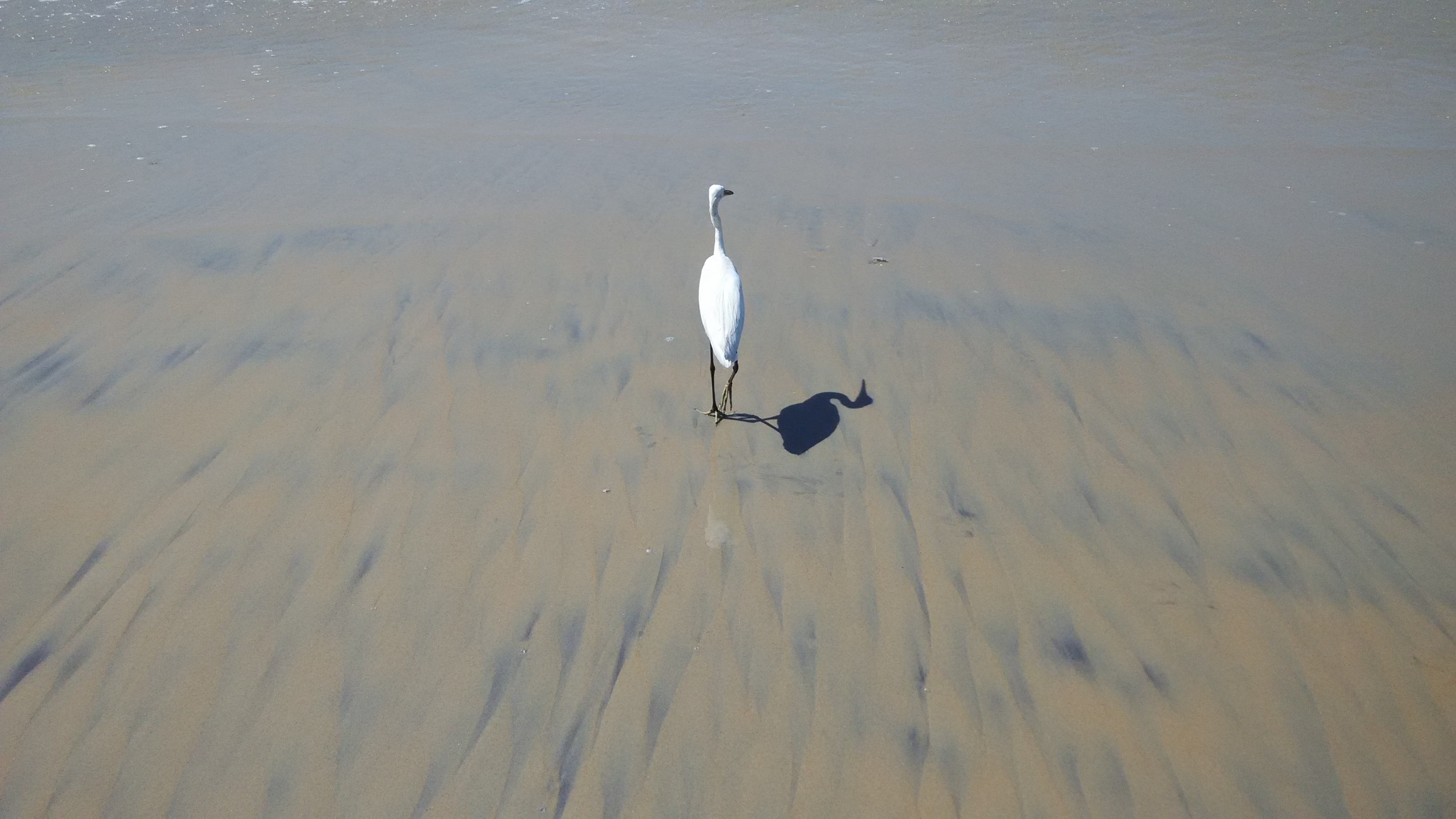 Little egret (Egretta garzetta) at Varkala beach, Thiruvananthapuram, Kerala